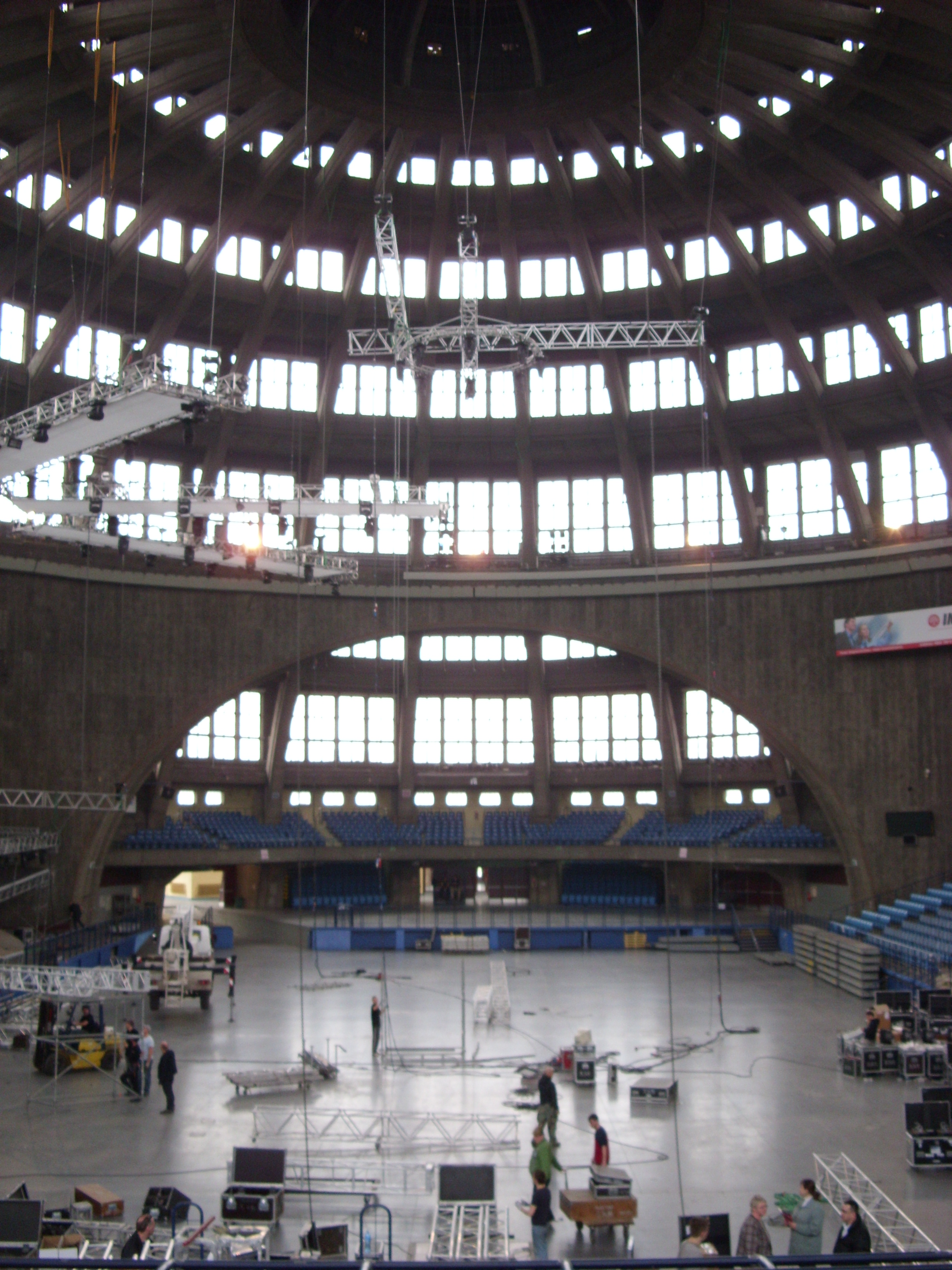 Inside the Centennial Hall in Wrocław, Poland.